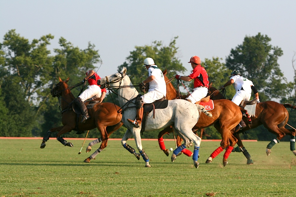 Polo At the Kentucky HOrse Park